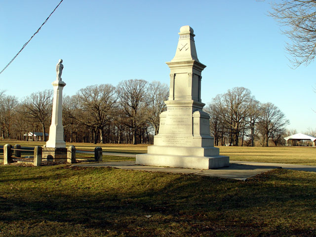 Monuments for the Indian Creek massacre. The monument built in 1877 is left, while the newer 1902 monument is right.